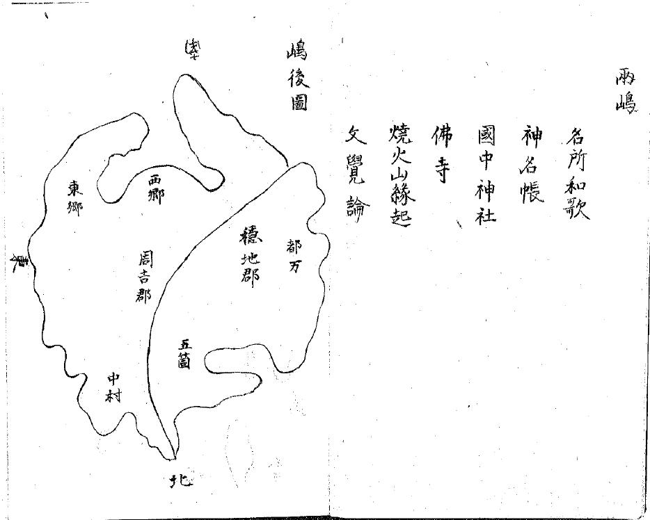 Japan's map